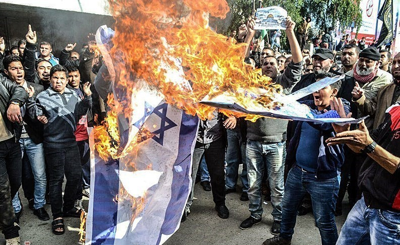 The burning of the American and British flags and the image of Mohammed bin Salman in Gaza in protest of the announcement of Jerusalem as the capital of the Zionist regime- Desember 2017